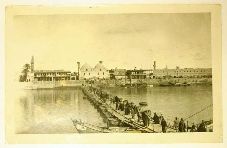 People Crossing Pontoon Bridge over the Tigris, Baghdad, Iraq World War I, 1917-1919